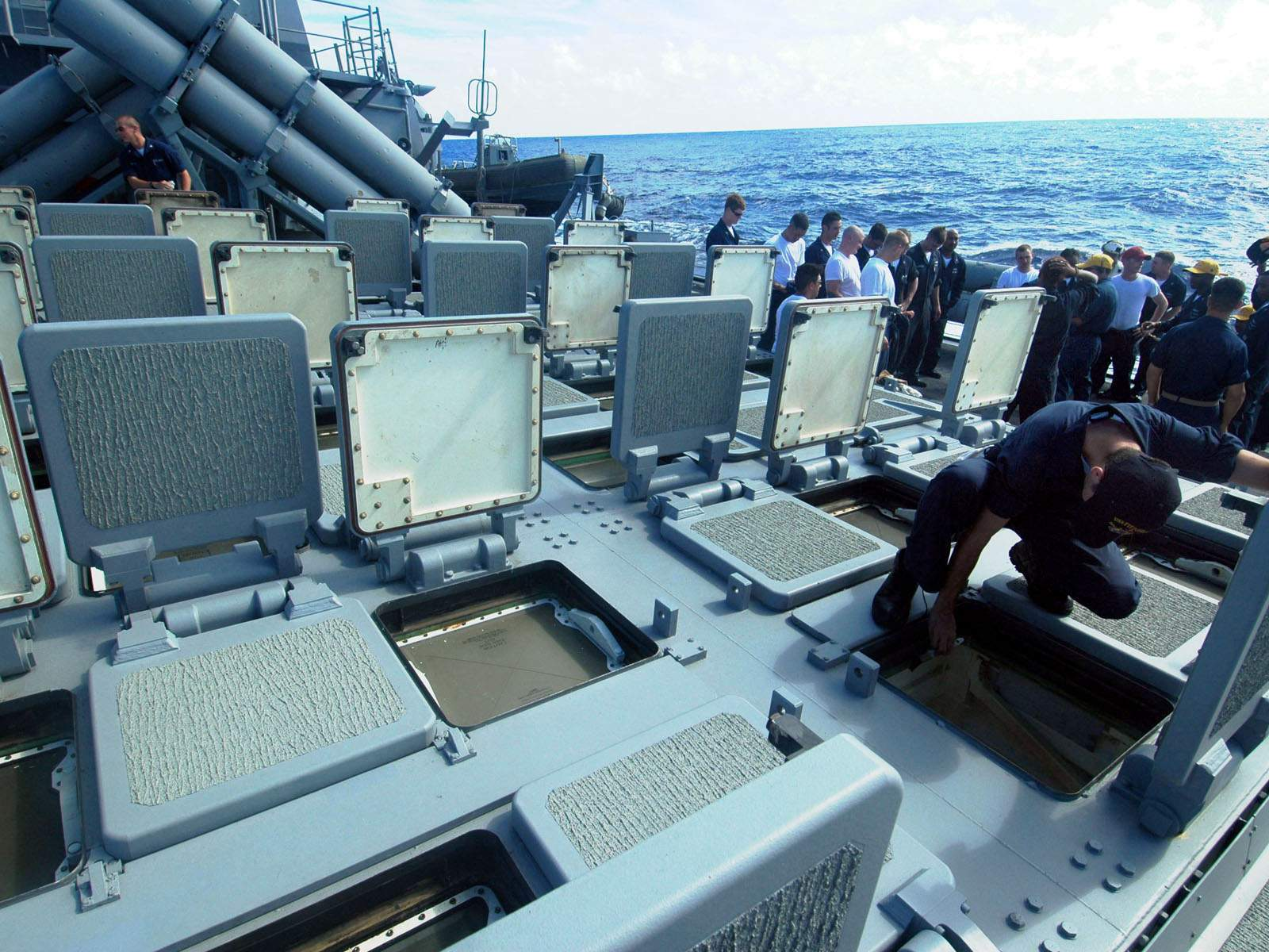 050903-N-1332Y-146 Yokosuka, Japan (Sept. 2, 2005) – A Sailor aboard the guided missile destroyer USS Fitzgerald (DDG 62) inspect the MK 41 Vertical Launching System (VLS) for water to prevent electrical failure. The MK 41 Vertical Launching System (VLS) is a canister launching system, which provides a rapid-fire launch capability against hostile threats. Fitzgerald is assigned to the Kitty Hawk Carrier Strike Group, currently forward deployed in Yokosuka, Japan. U.S. Navy photo by Photographer's Mate Airman Adam York (RELEASED)